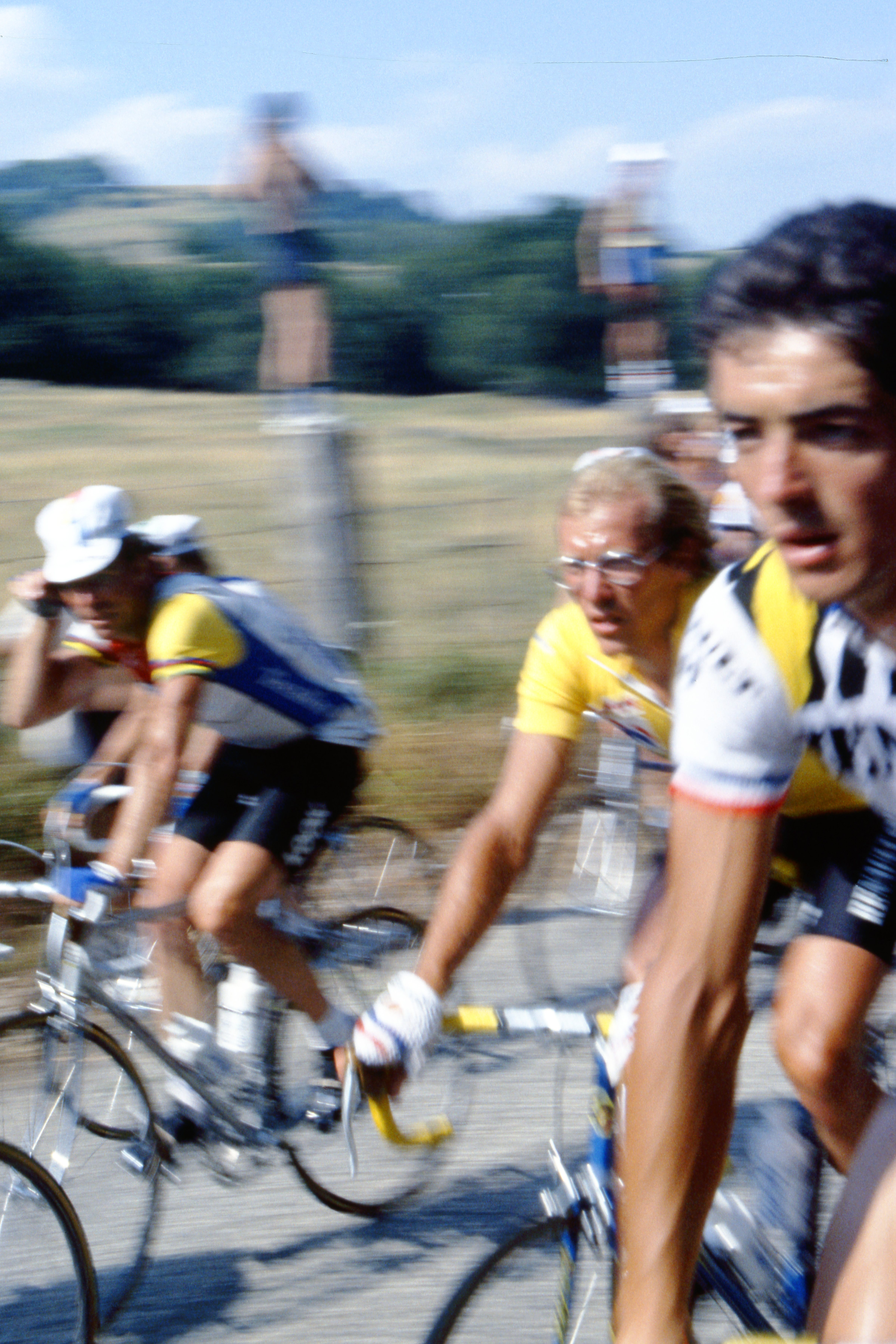 This is a picture I captured of Laurent Fignon during the 1984 Tour de France. I'm not sure what stage it was but one of the stages between 15-18 that brought the race through the Lyon region.